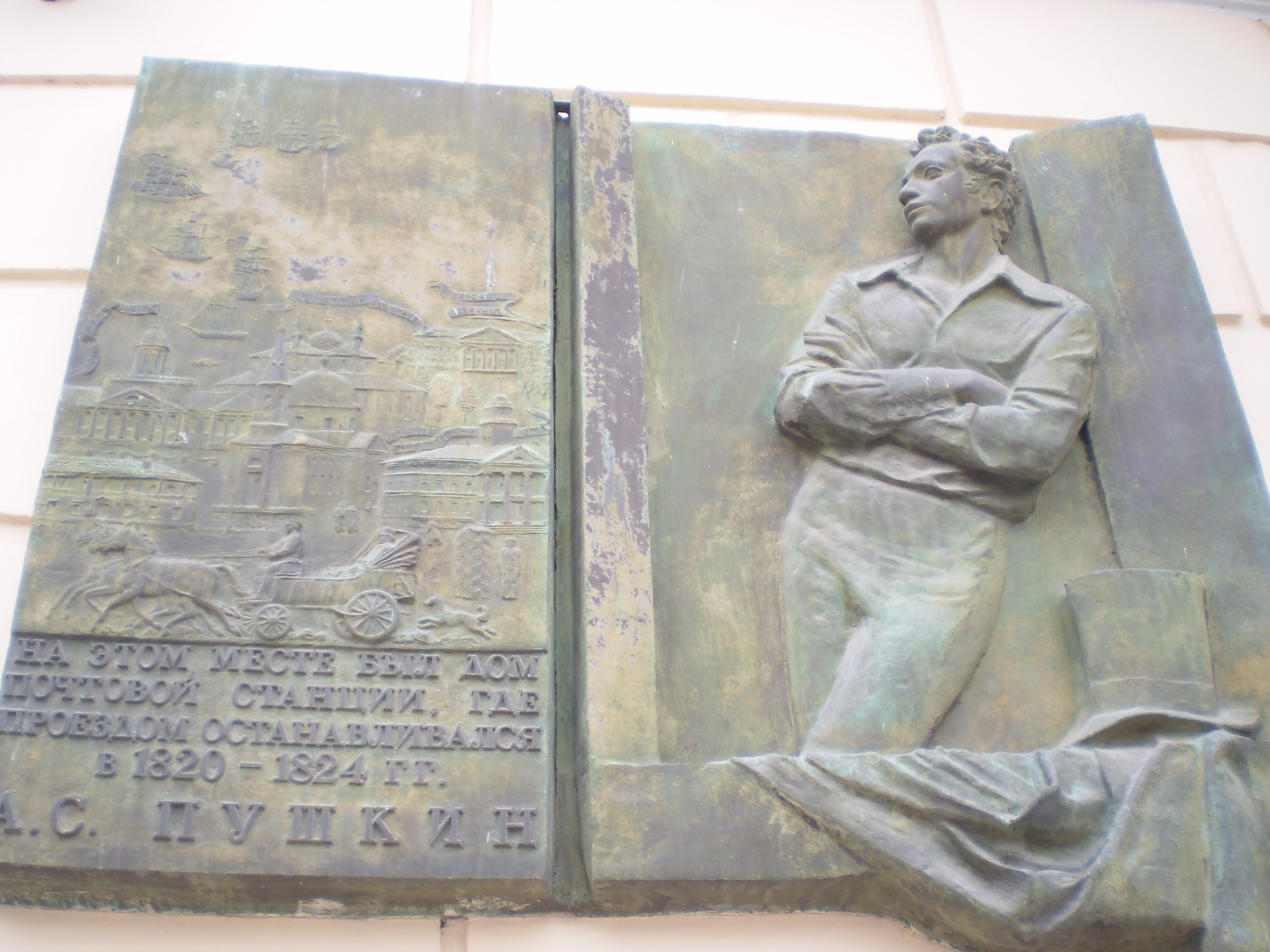 меморіальна дошка на будівлі колишнього Поштового будинку, де в 1820-24 рр. зупинявся О.С. Пушкін по вул. Шевченка, 64а Миколаївська весна у Вікіпедії